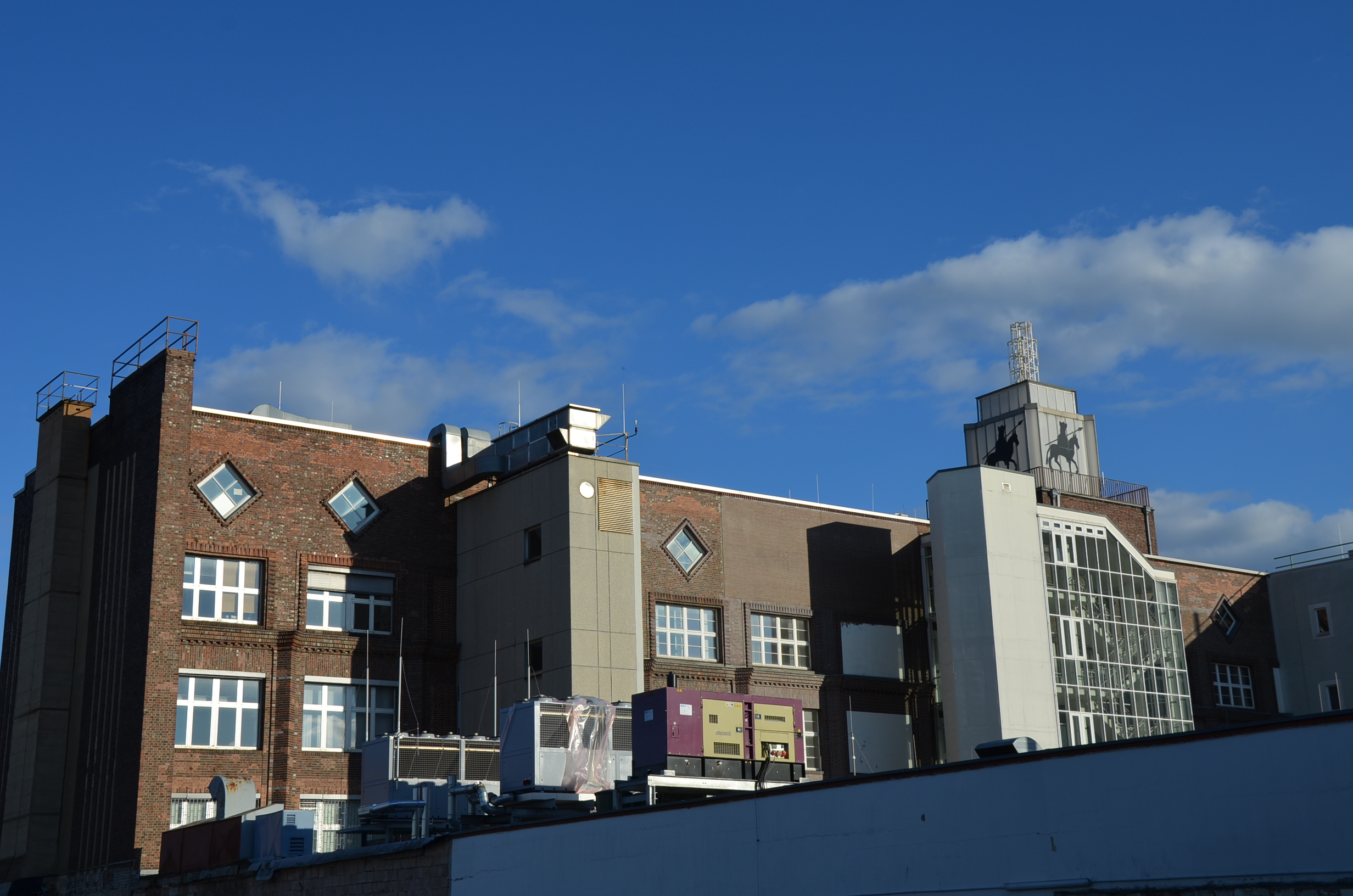 Brotfabrik Schöneberg